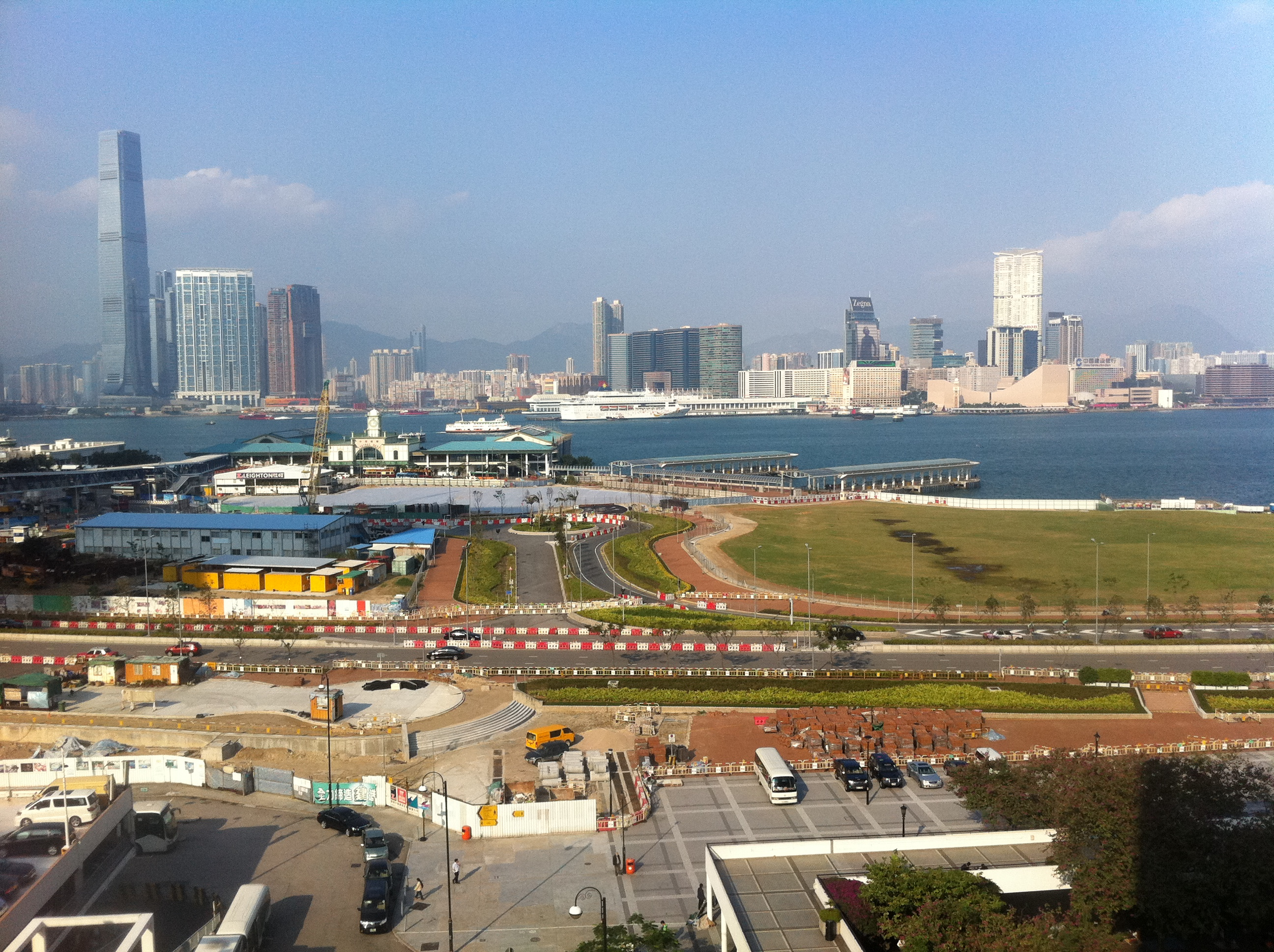 Central, Hong Kong